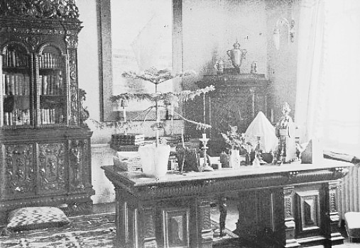 CG Dahlerus office desk approx. 1900